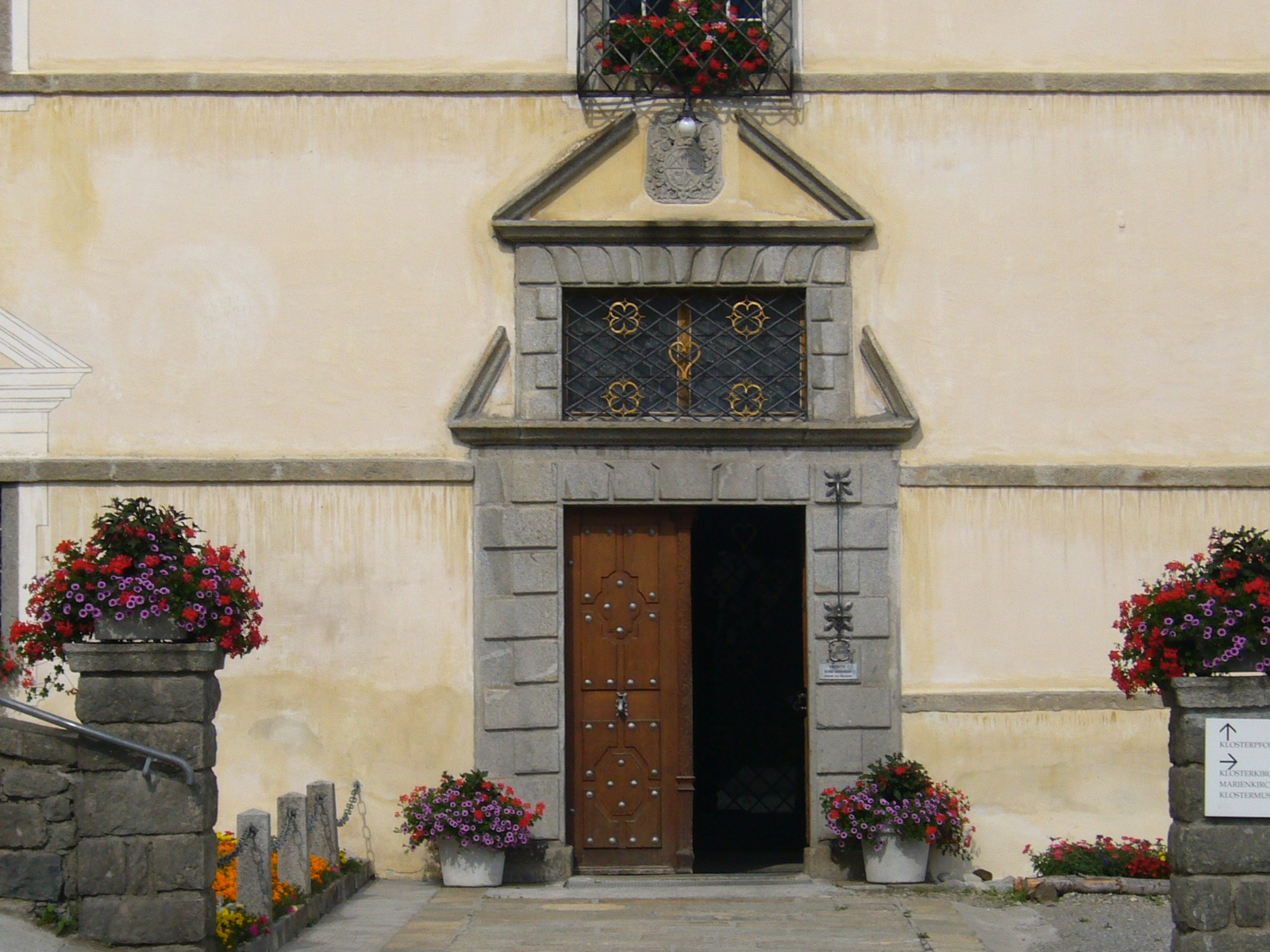 Entry to the monastery of Disentis, Switzerland. Picture taken by Peter Berger, July 31, 2006.